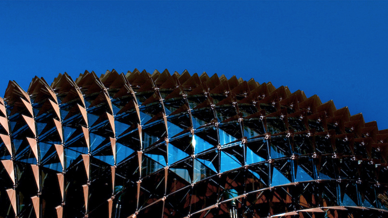 Esplanade – Theatres on the Bay at midday.